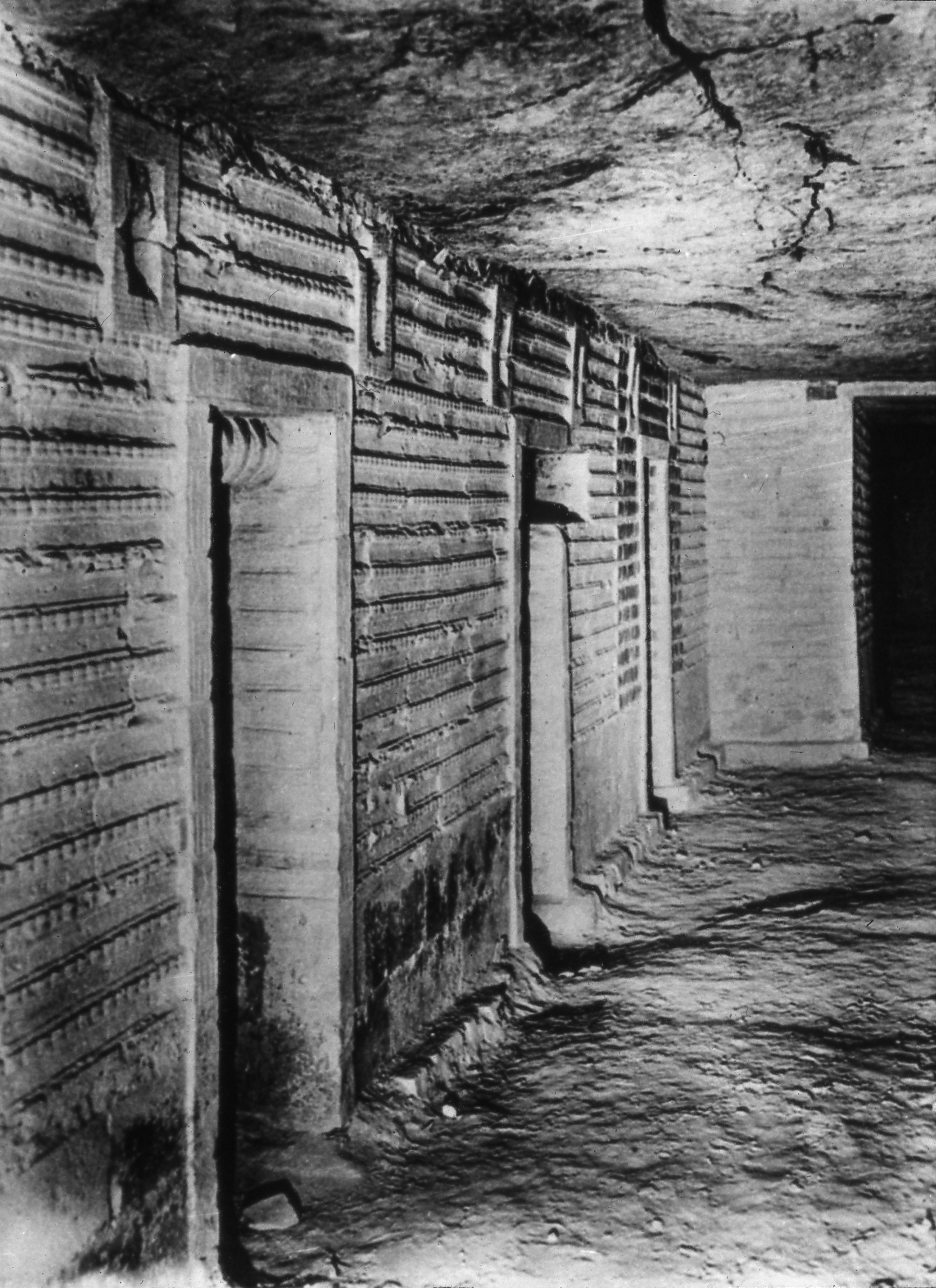 Lantern Slide Collection: Views, Objects: Egypt. Sakkara [selected images]. View 19: Step Pyramid, Sakkara, 3rd Dyn. Blue faience chambers., n.d. Brooklyn Museum Archives (S10|08 Sakkara, image 9645). This image was uploaded at high resolution and it helps us to know how our visitors work with our images, so if you use it, we'd love to know how! Drop us a line by leaving a comment here or email our archivist